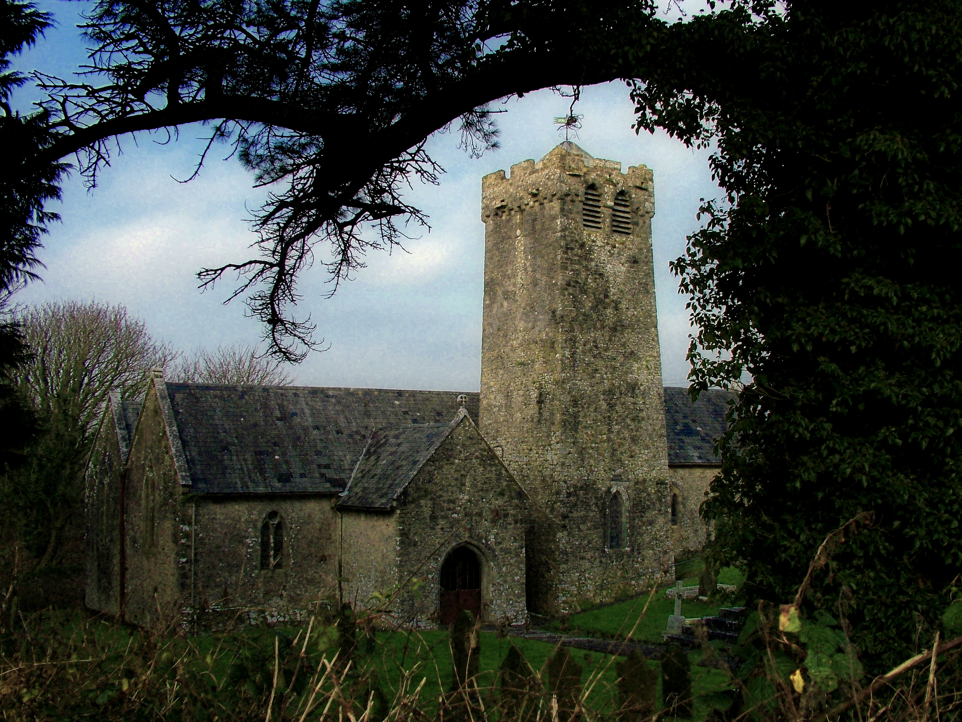 This Church is one of the hidden gems of Pembrokeshire. Grade 1 listed it stands in a beautiful location on the landward side of Castlemartin village. It is a large multicelled church dating from the 13th Century - although there is some evidence that there was a church on site prior to the Norman conquest. 90% of its core fabric predates the 19th Century. It has a rising floor leading up to the High Altar similar to St Davids Cathedral. It has been under the patronage of the Priory of St Nicholas, Monkton, Pembroke, St Albans Abbey and, more recently, the Campbells of Stackpole who became the Earls of Cawdor. The beautiful hillside churchyard contains an ancient ruined medieval cottage at the top known as The Old Rectory. There is some evidence to suggest that it pre-dates the Church. It contains some fine medieval carvings on one of its pillars. The churchyard also contains a fine 19th Century Lych Gate with wrought iron fists for handles and a medieval Preaching Cross.